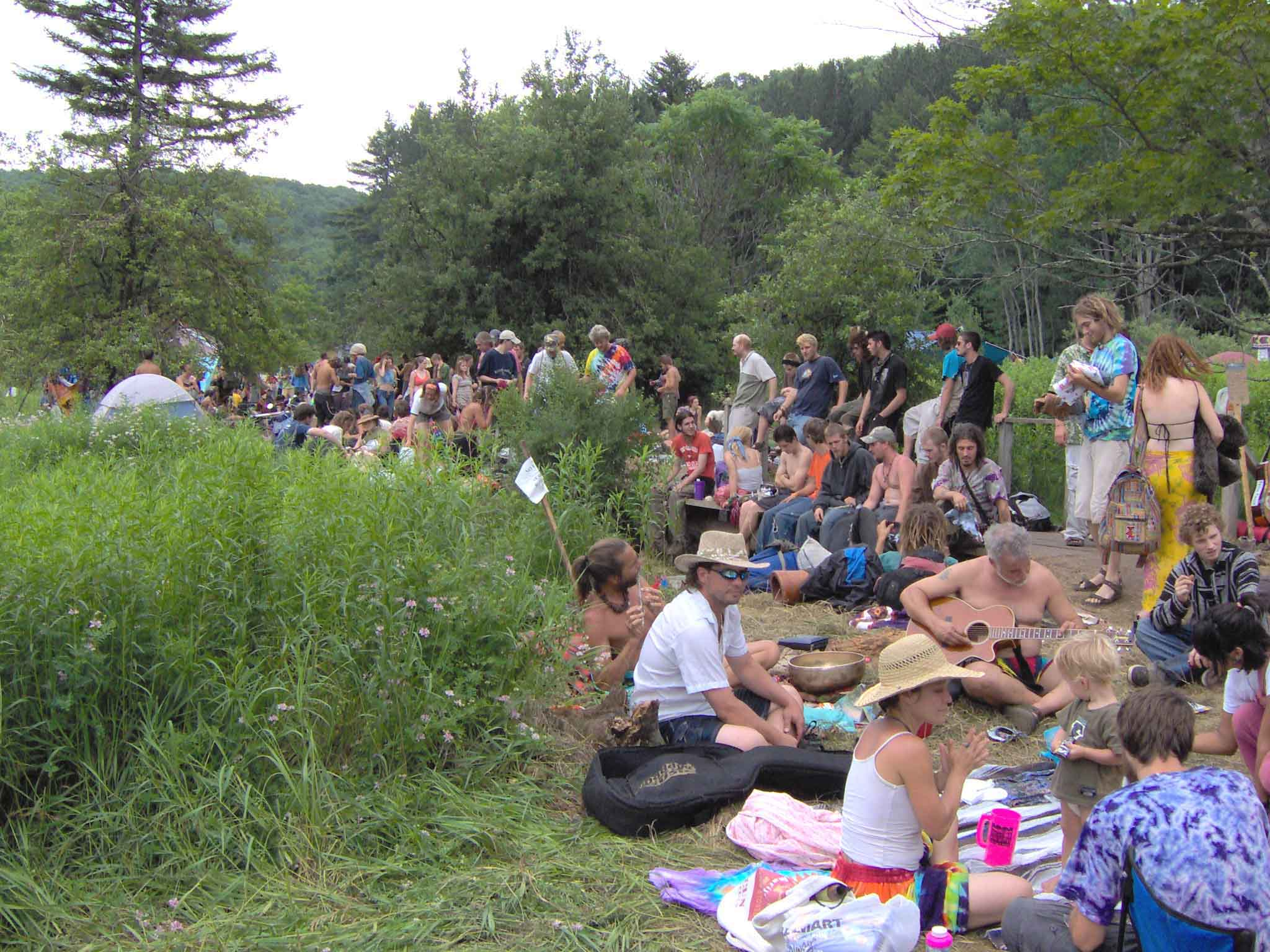 Rainbow Gathering trader circle. Photograph taken on July 5 at the 2005 Rainbow Gathering in Cranberry, West Virginia